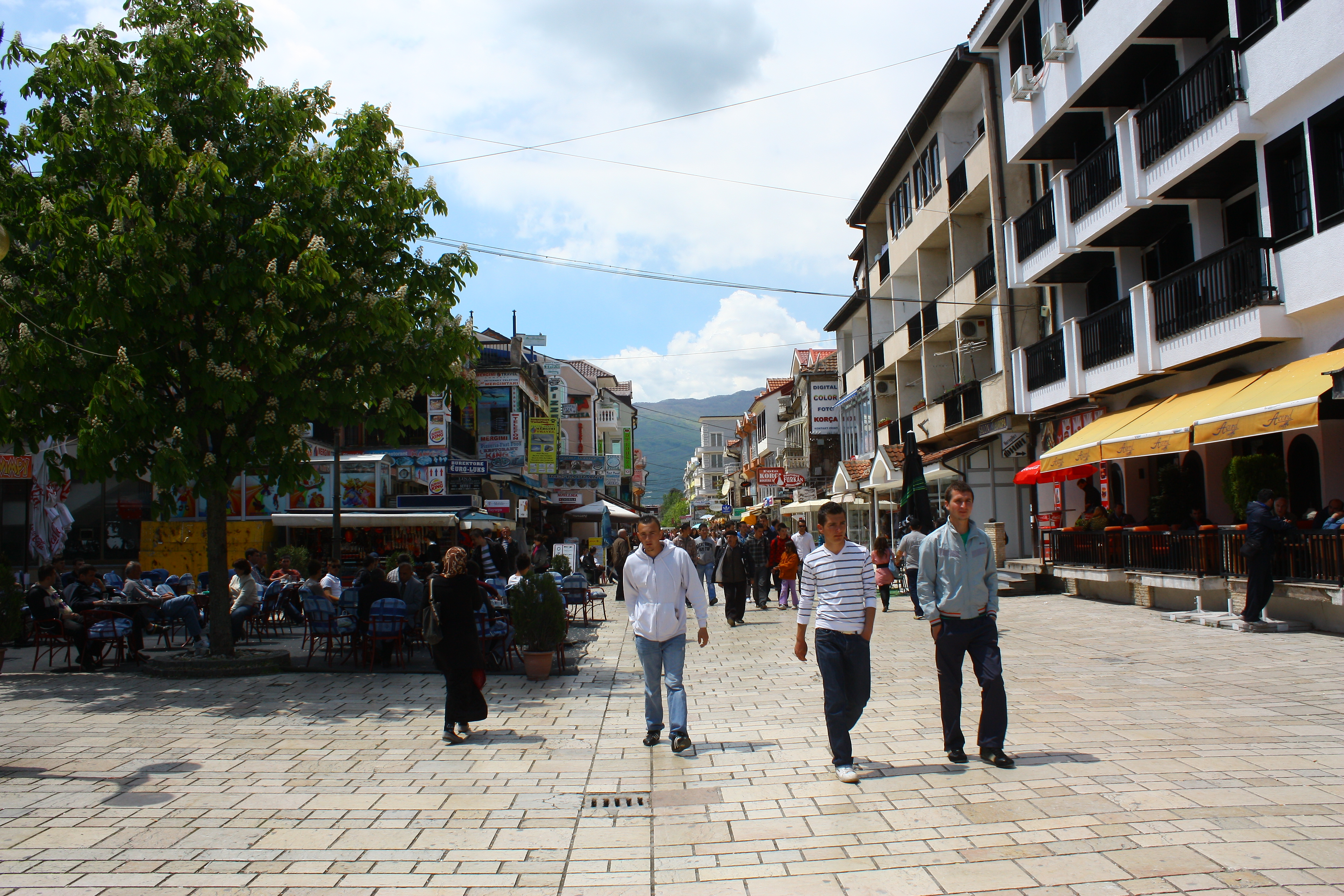 Struga, Macedonia